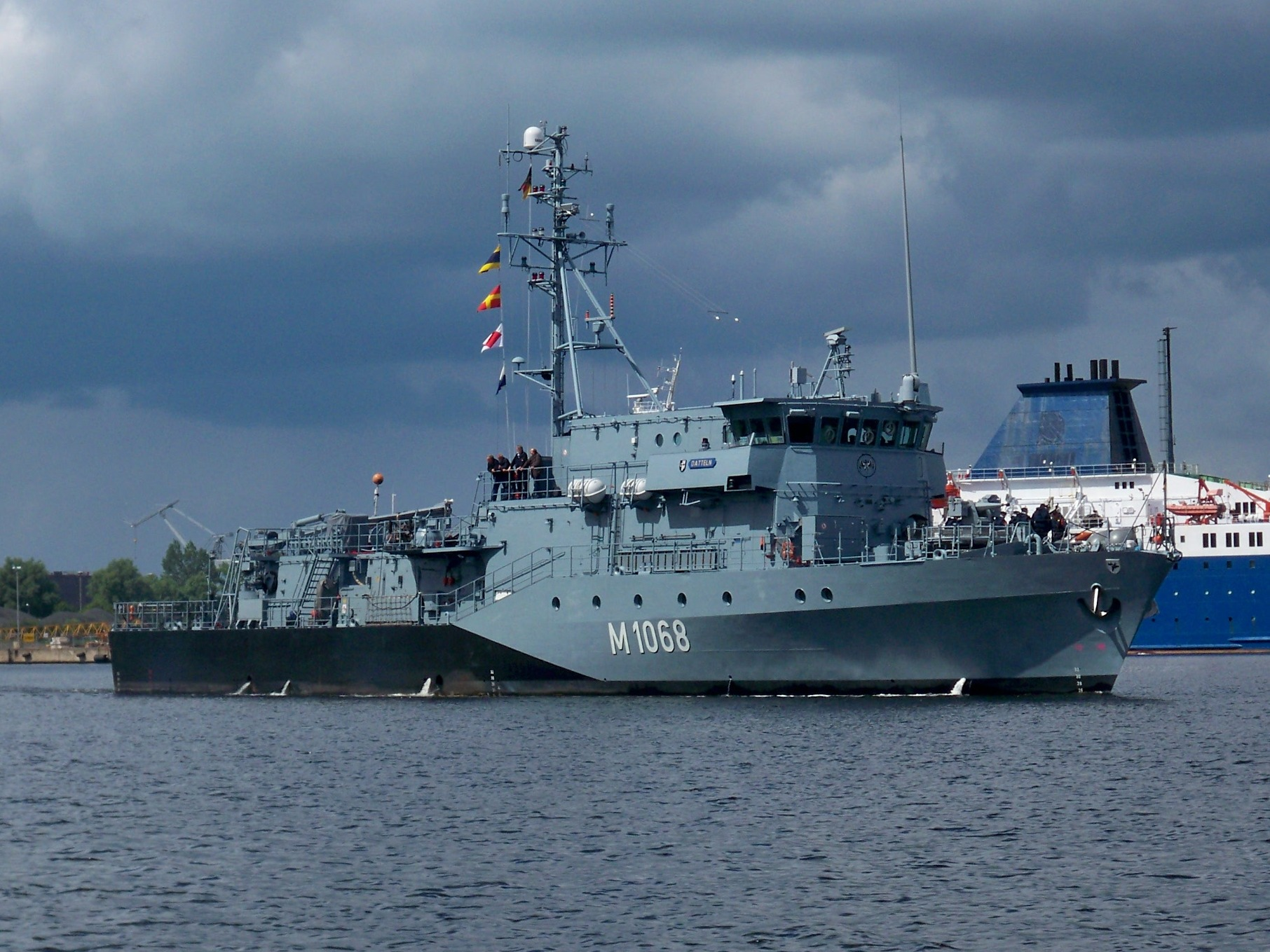 German mine hunter Datteln in the port of Wilhelmshaven